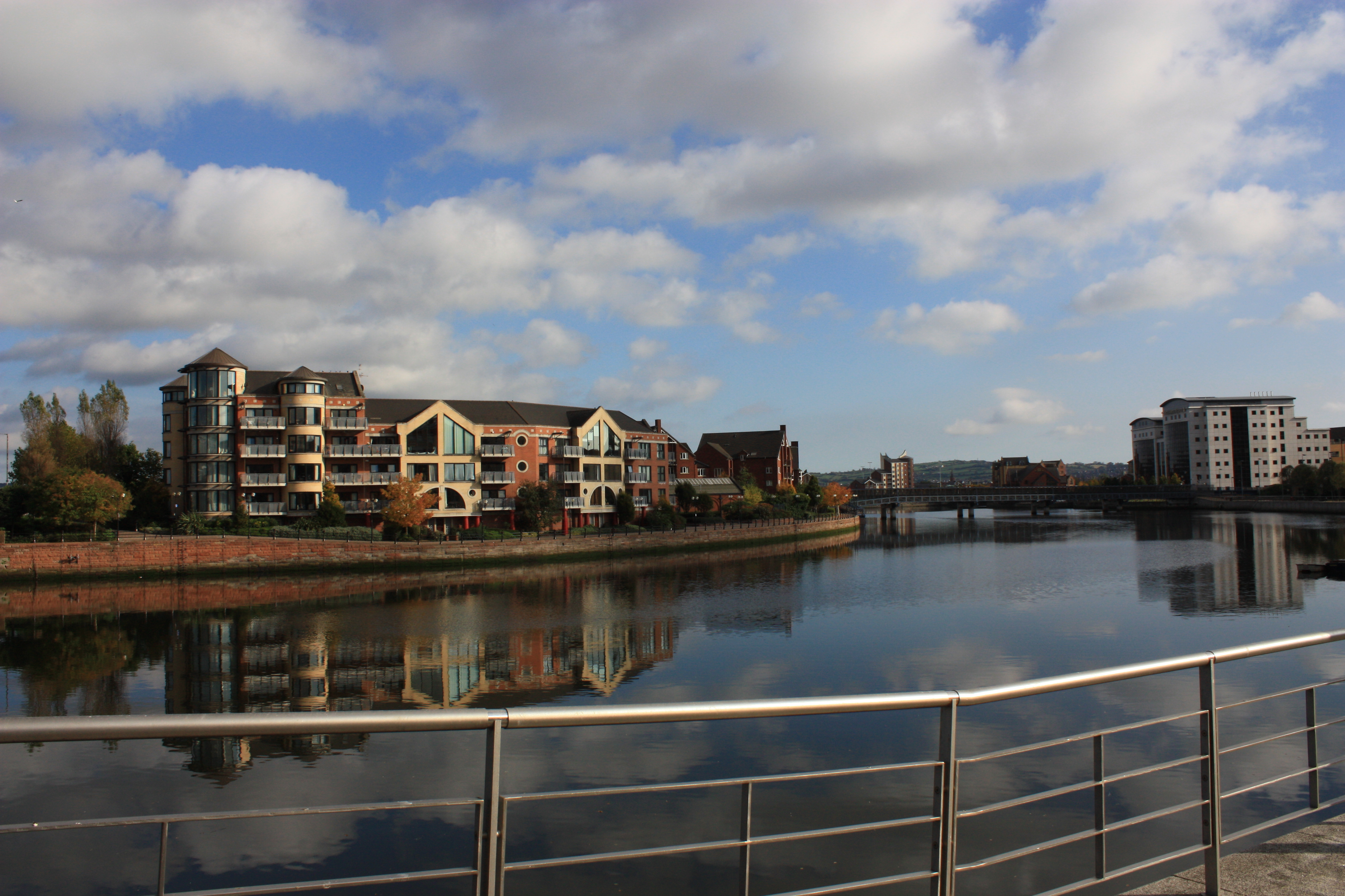 River Lagan (viewed from Thanksgiving Square), Belfast, Northern Ireland, October 2009